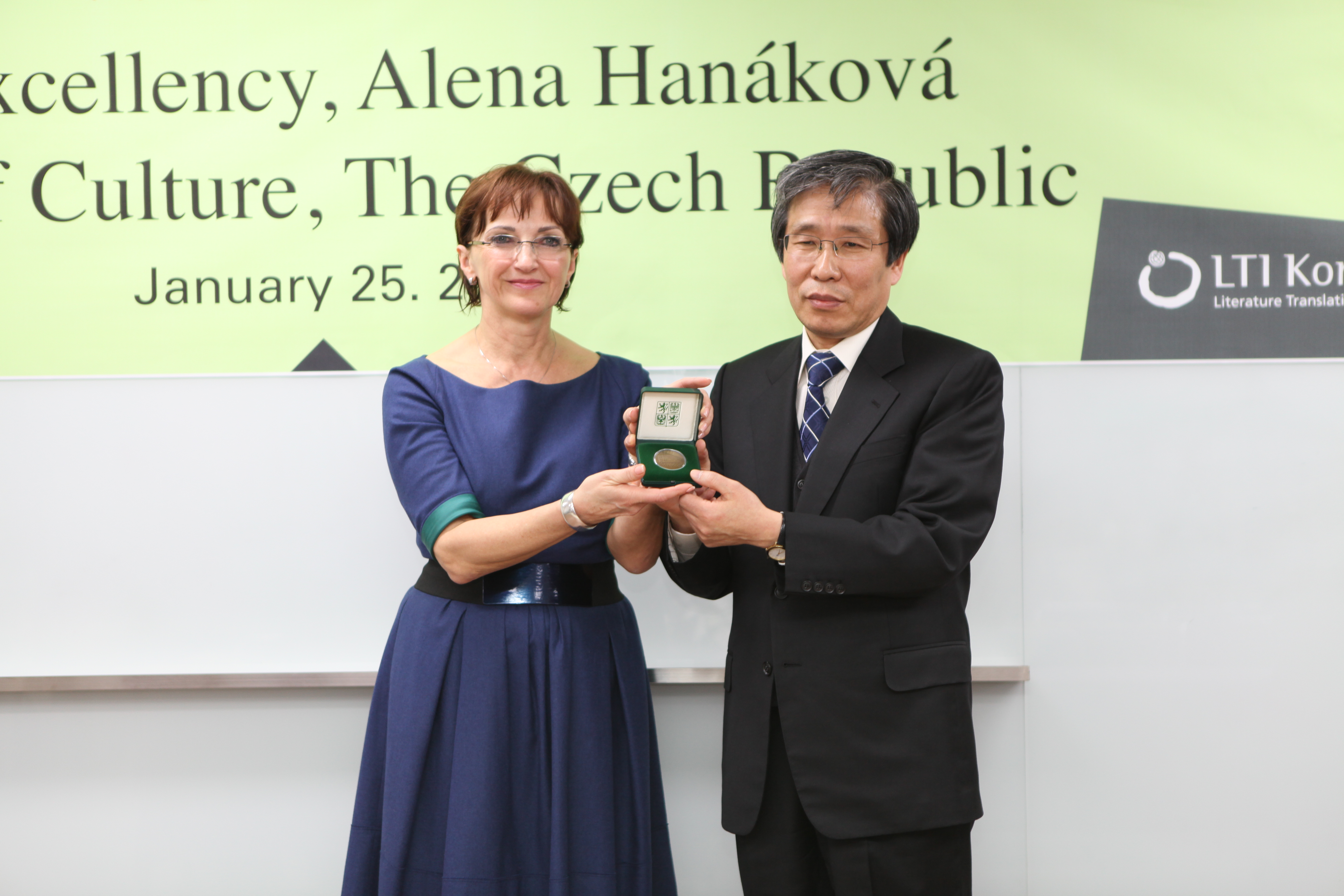 Kim receives a medal from H.E. Alena Hanakova, Minister of Culture of the Czech Republic on January 25, 2013